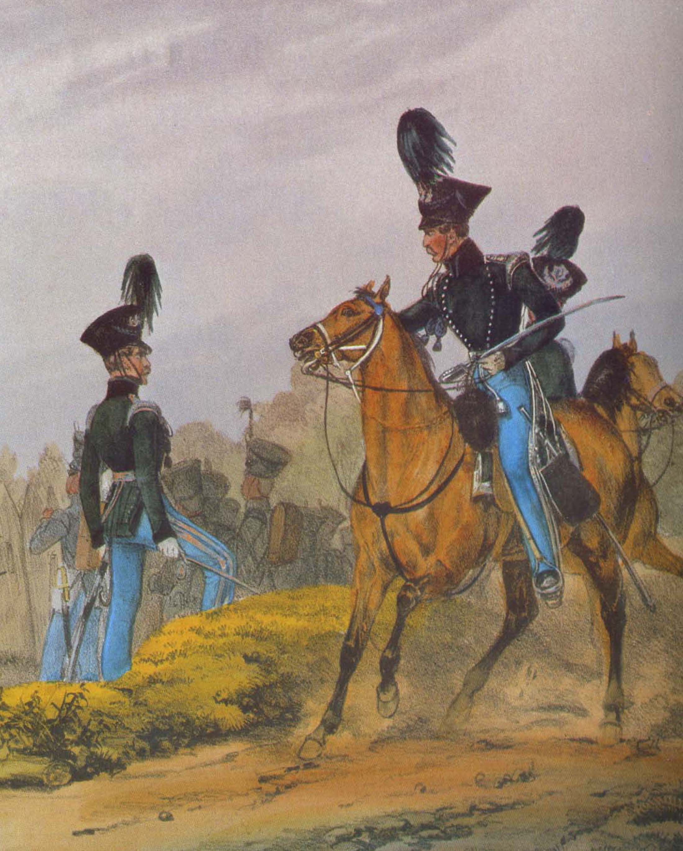 Kingdom of Hannover Guard Rifles (Officers)